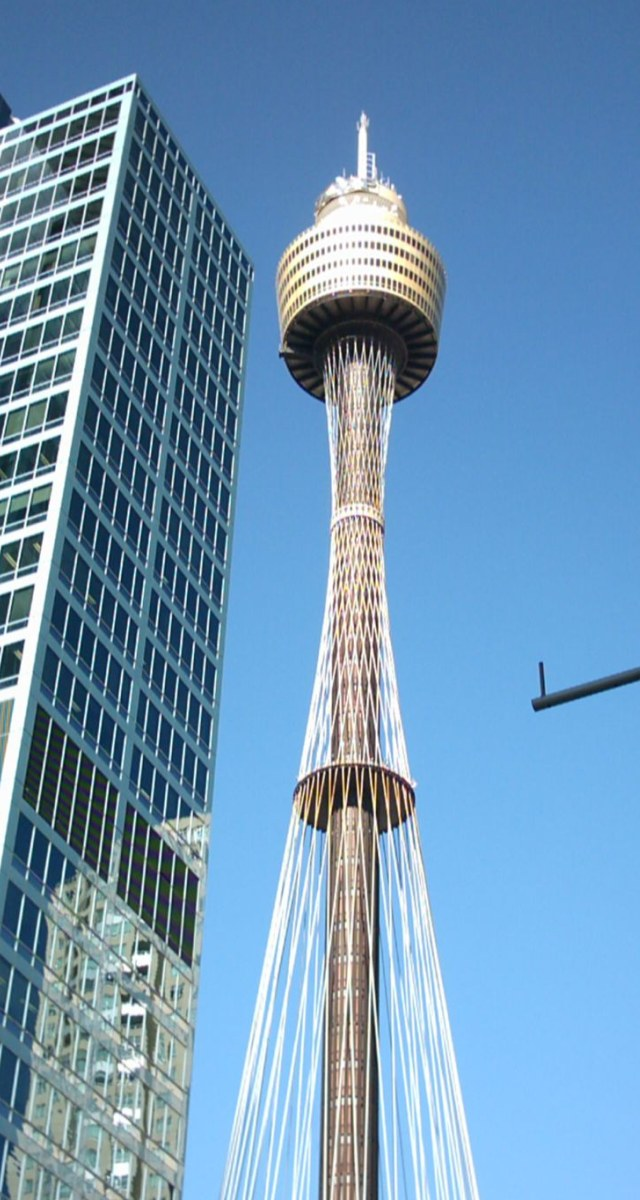 The Sydney Tower, also known as 'Centrepoint Tower', in the Sydney CBD, Sydney, Australia.